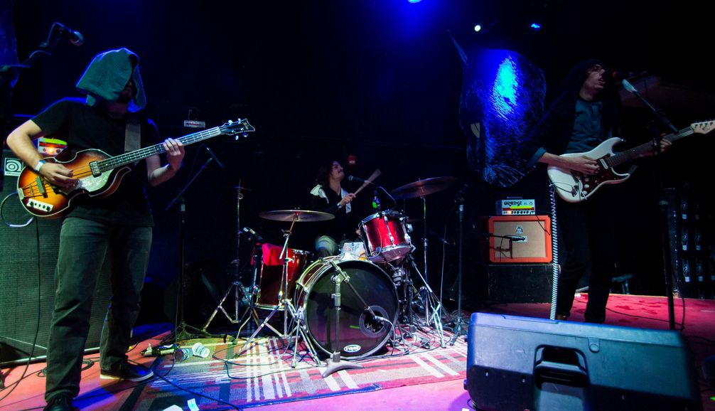 Show of the band "O Terno" in "Beco 203" in Sao Paulo on 18/04/13. Photo by Gianluca Ramalho Misiti.